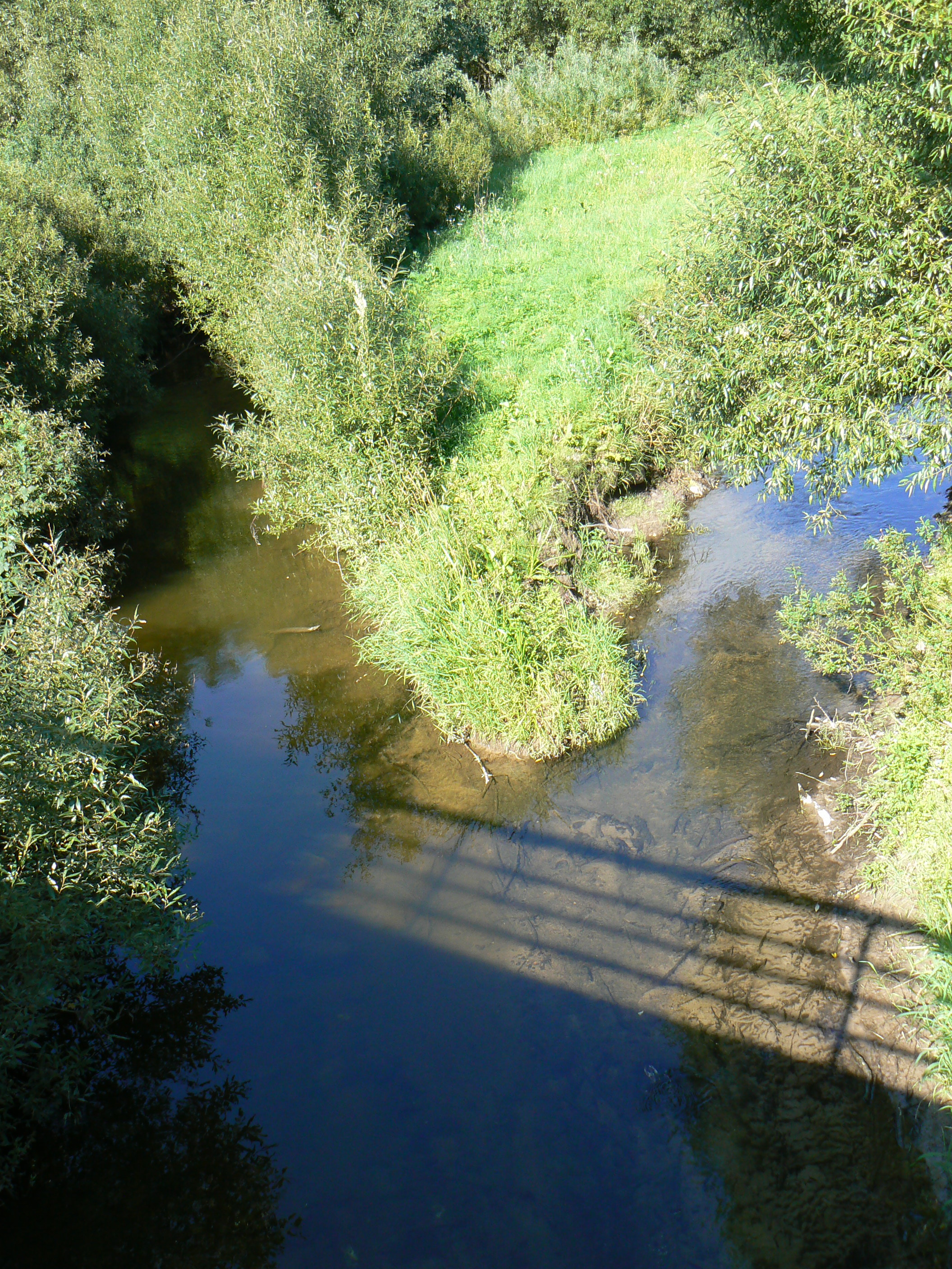 Confluence Šelmuo x Šustis in Žemaičių Naumiestis, Samogitia